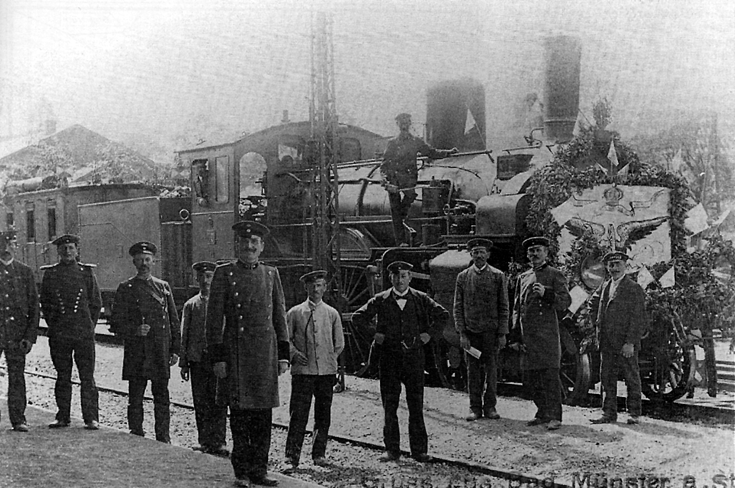 Opening Train of Glantal railway 1904